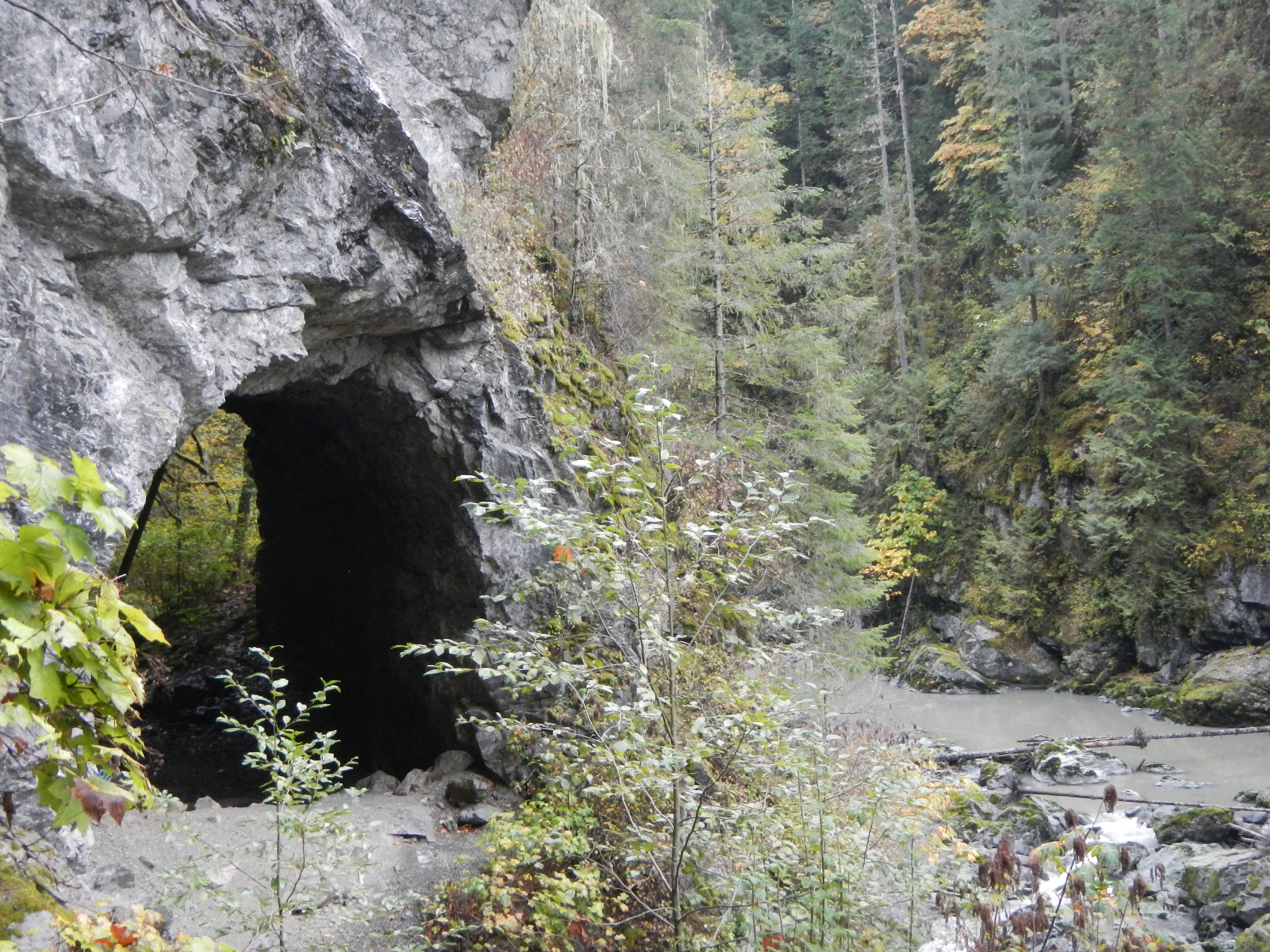 West portal of Robe Canyon tunnel #5 of the Everett and Monte Cristo Railway